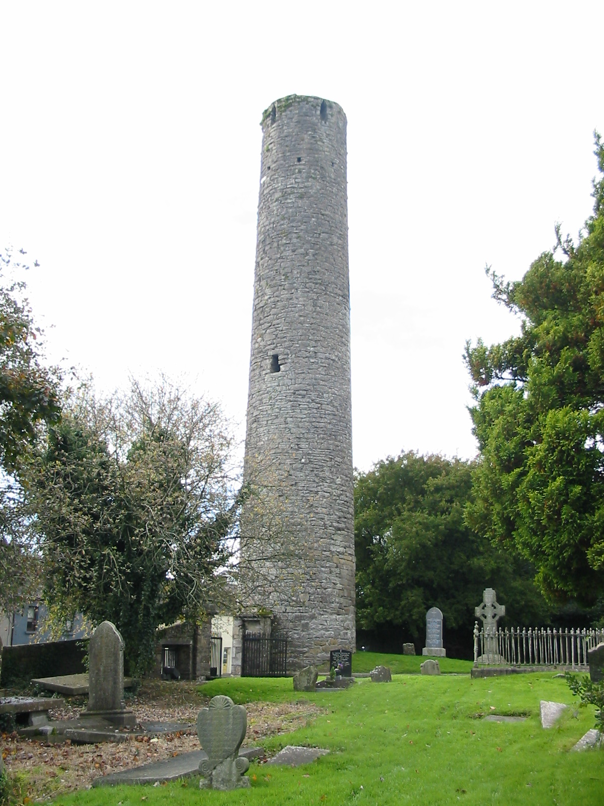 The Round Tower of Kells, County Meath, Ireland, dates from the 10th century. Is is 26 meters high and has a circumference of 15 meters. It has six floors, but no internal staircase: access was made by ladders. Each floor has a window; at its top, it has five more windows instead of four usually, corresponding to the five medieval gates and roads, to Canon, Carrick, Maudlin, Dublin and Farrell. It is mentioned in 1076 in the annals because of the murder in its walls of Murchadh, a self-proclamed High King of Ireland. It is there egally that the Book of Kells was found.